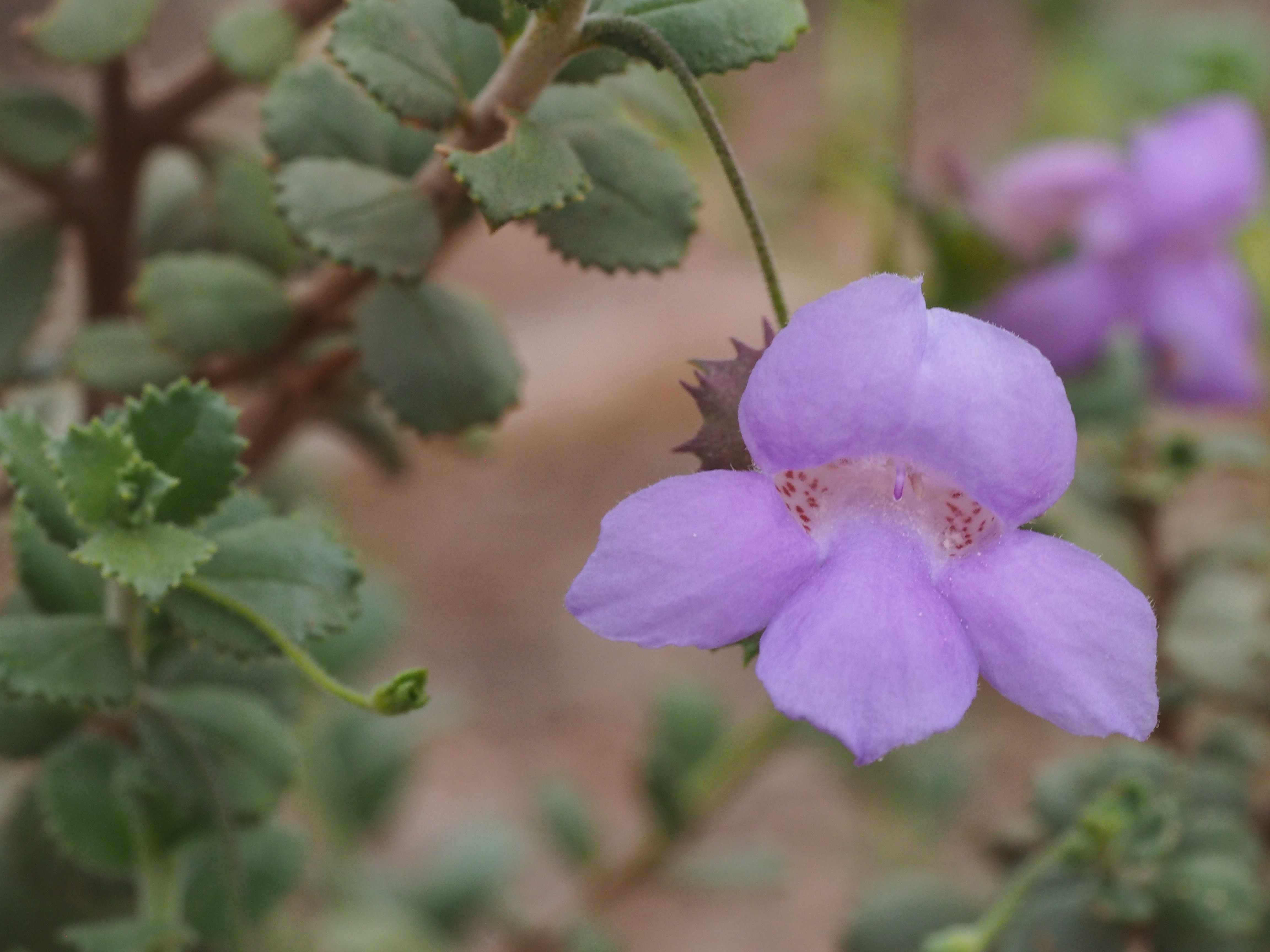 Eremophila flabellata showing inside floral tube